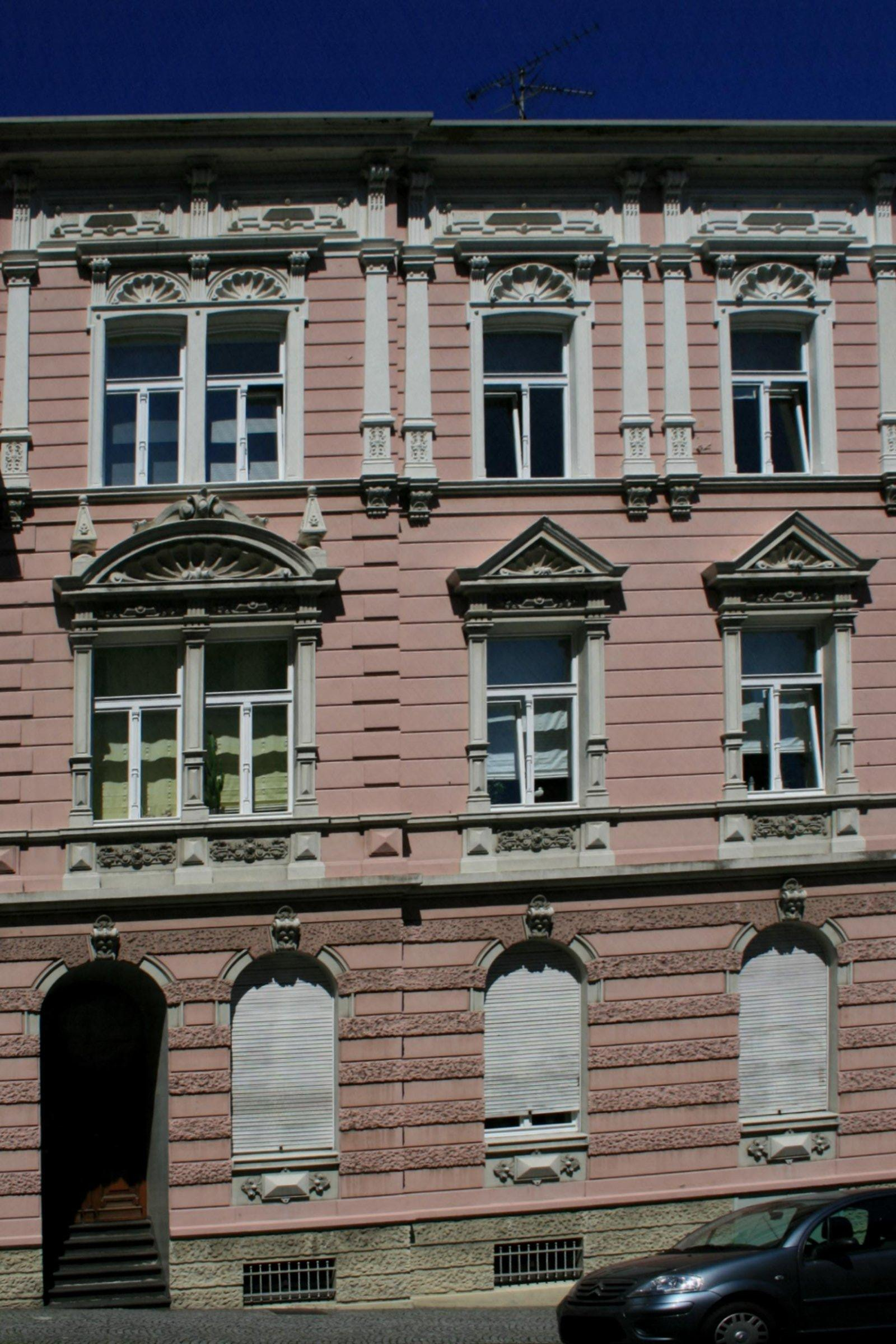 Cultural heritage monument No. G 034 in Mönchengladbach